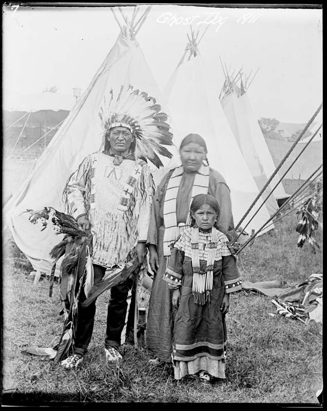 Ghost Dog and his wife and child were performers in Buffalo Bill's Wild West Show; a circus tent is visible in the background.